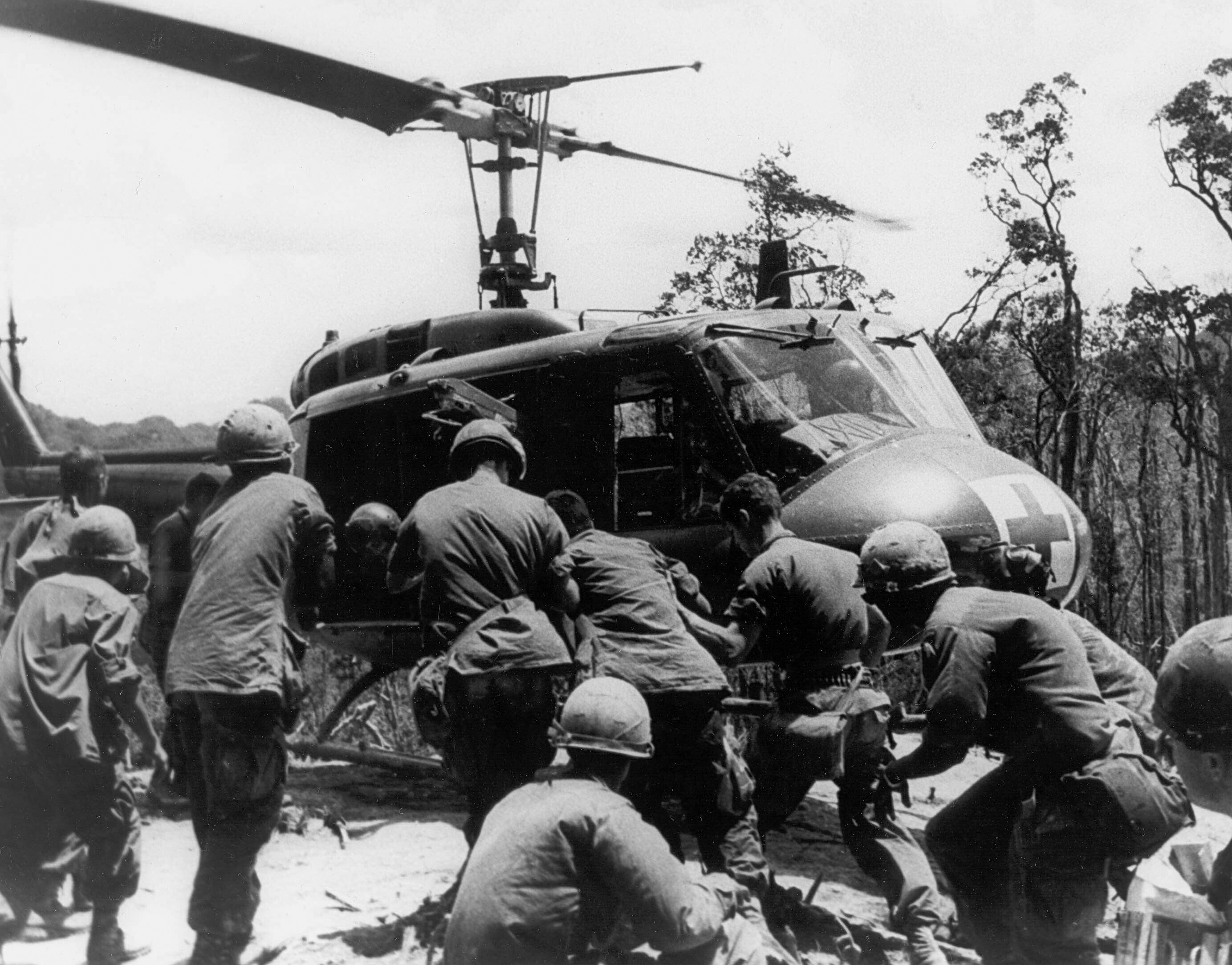 Dust Off! This image shows wounded Troopers being loaded onto a UH1H Aca,!A"HueyAca,!A? helicopter operating in a Aca,!A"Dust OffAca,!A? or medical evacuation role. Operation Apache Snow, May 1969. (Melvin Zais Photograph Collection). (Photo Credit: USAMHI)